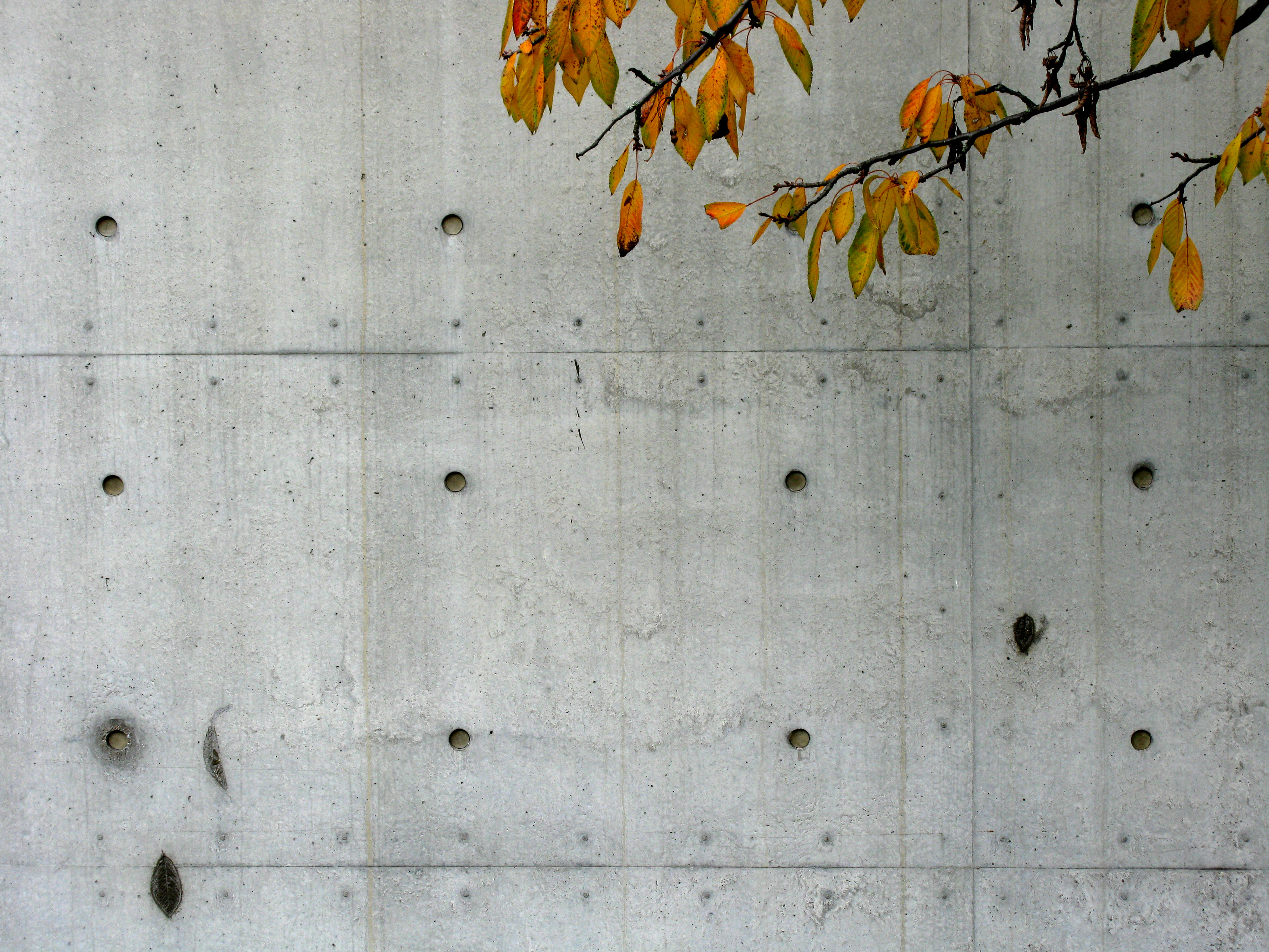 Vitra Conference Pavilion, Detail